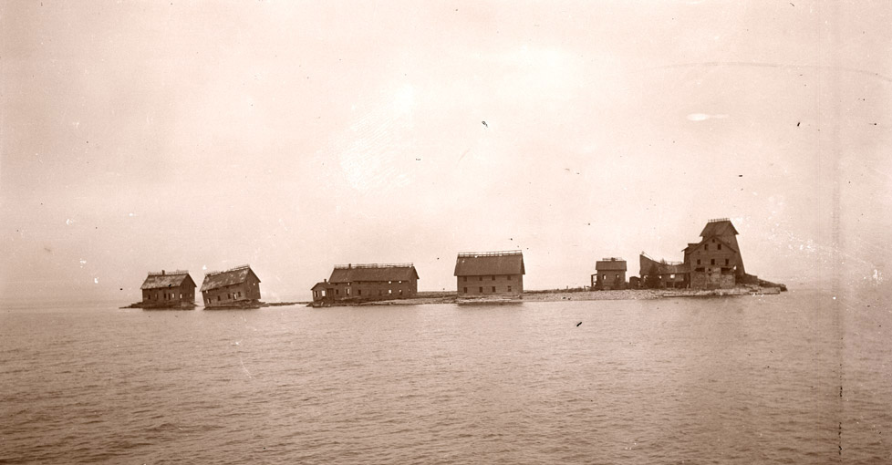 Photographer: James Fraser Paige Format: Nitrate Negative Reference no.: James Fraser Paige Nova Scotia Archives accession no. 1991-088 no. 9 Scan no.: 201003062